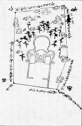 Picture of Gusikawa Udun's tomb, Okinawa, the 18th century